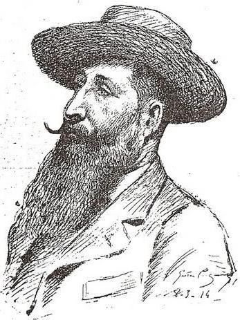 Portrait of Fernand Pigòt